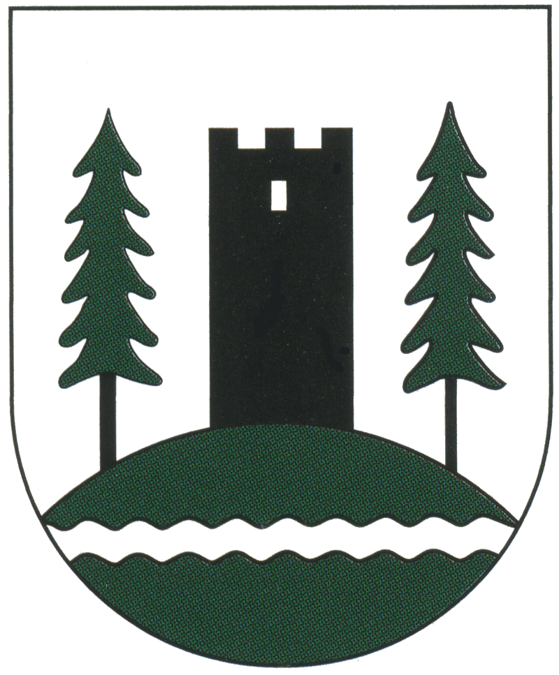 This file depicts the coat of arms of a German Körperschaft des öffentlichen Rechts (corporation governed by public law). According to § 5 Abs. 1 of the German Copyright law, official works like coats of arms are in the public domain. Note: The usage of coats of arms is governed by legal restrictions, independent of the copyright status of the depiction shown here. Coat of arms of Tannenberg